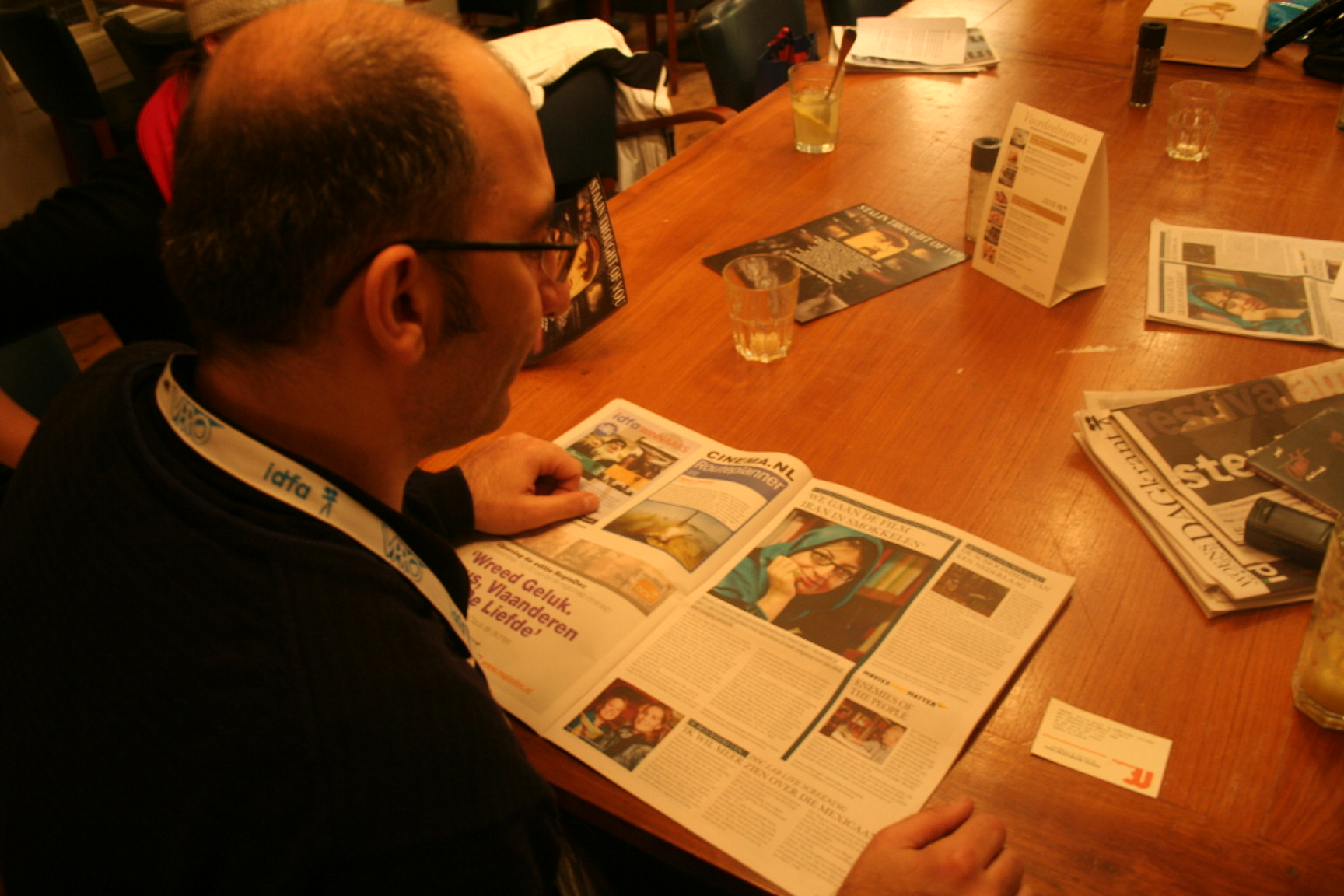 Farid Haerinejad (director) after the screening of "Women in Shroud" at IDFA (Amsterdam International Documentary Film Festival), Nov. 2009, Photo by Pejman Akbarzadeh